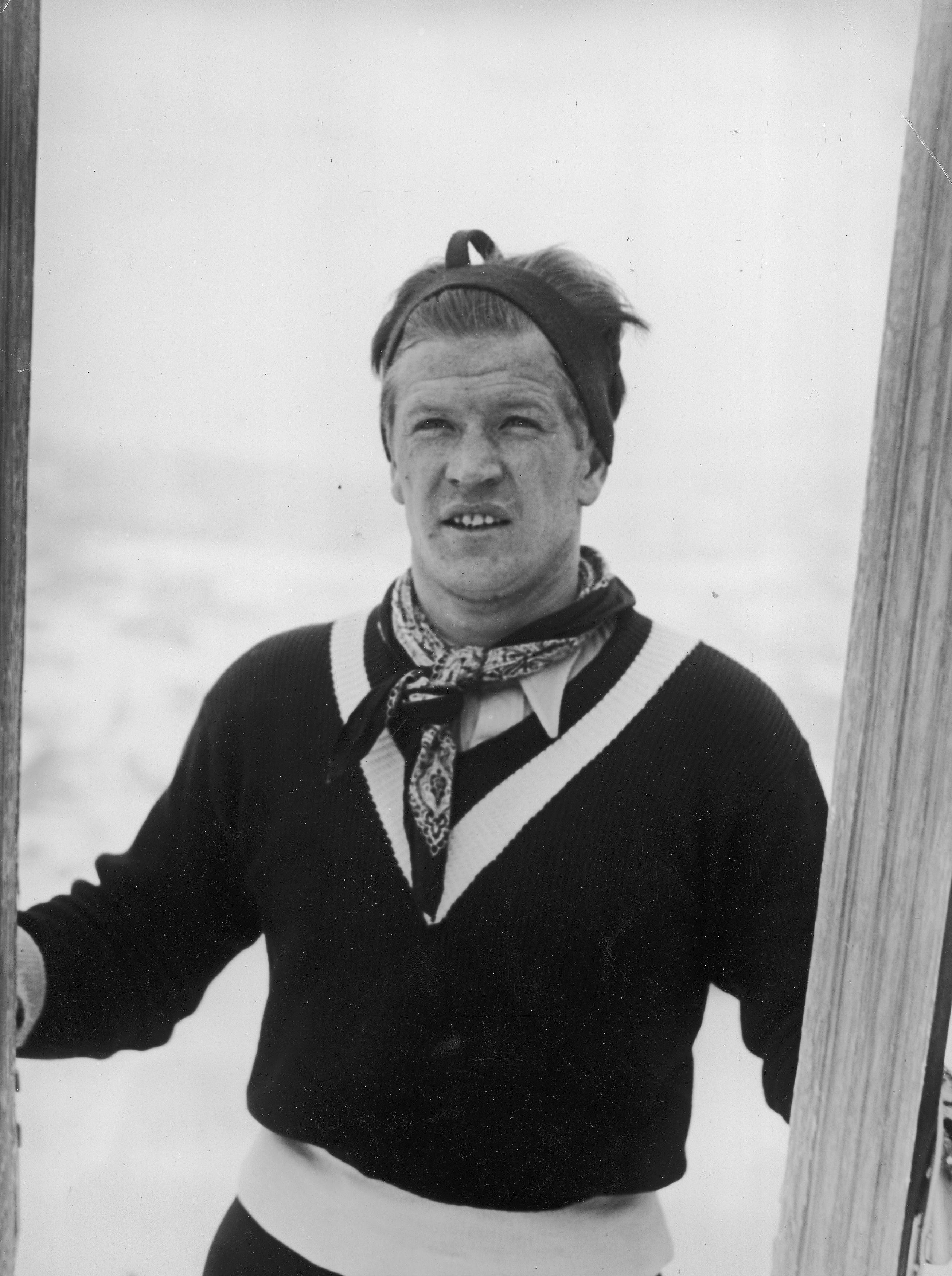 Birger Ruud - Norwegian ski jumper (photo from 1936)